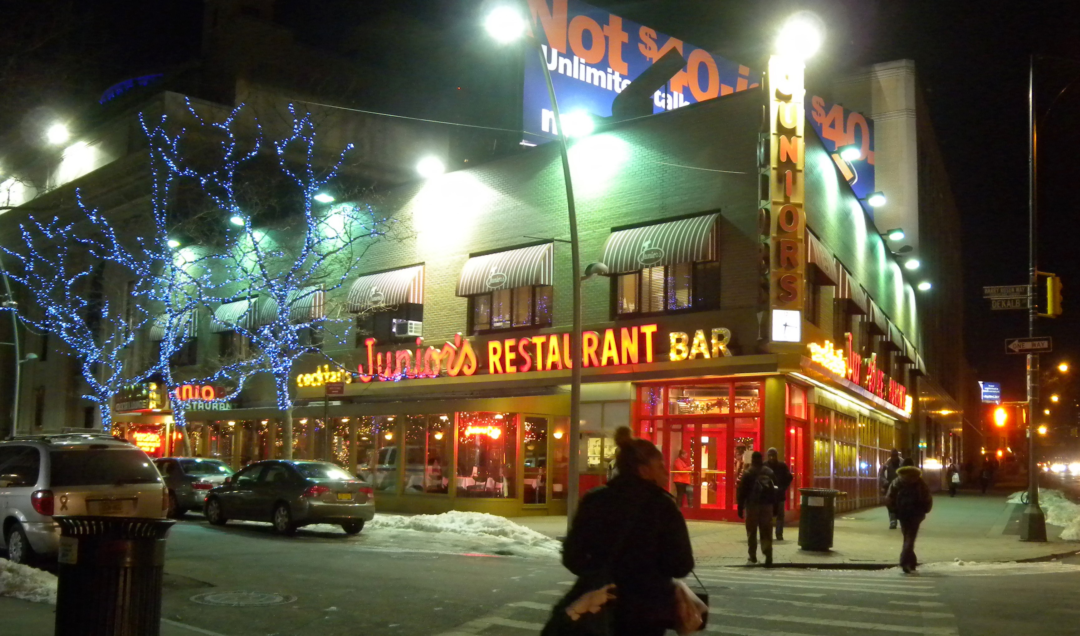 Looking northwest across Willoughby Street at Junior's after sunset.